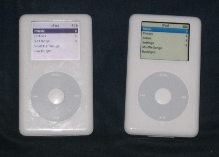 iPod 4G and iPod photo.